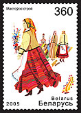 Stamp of Belarus